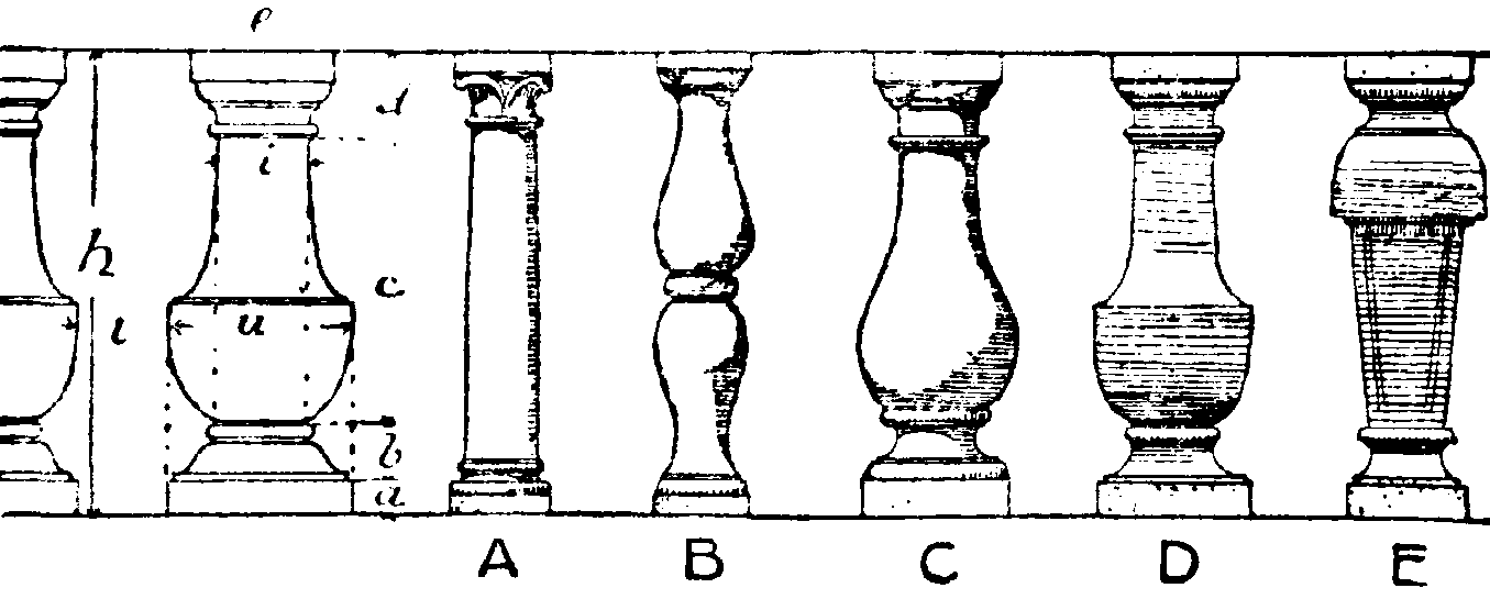 Different types of baluster.